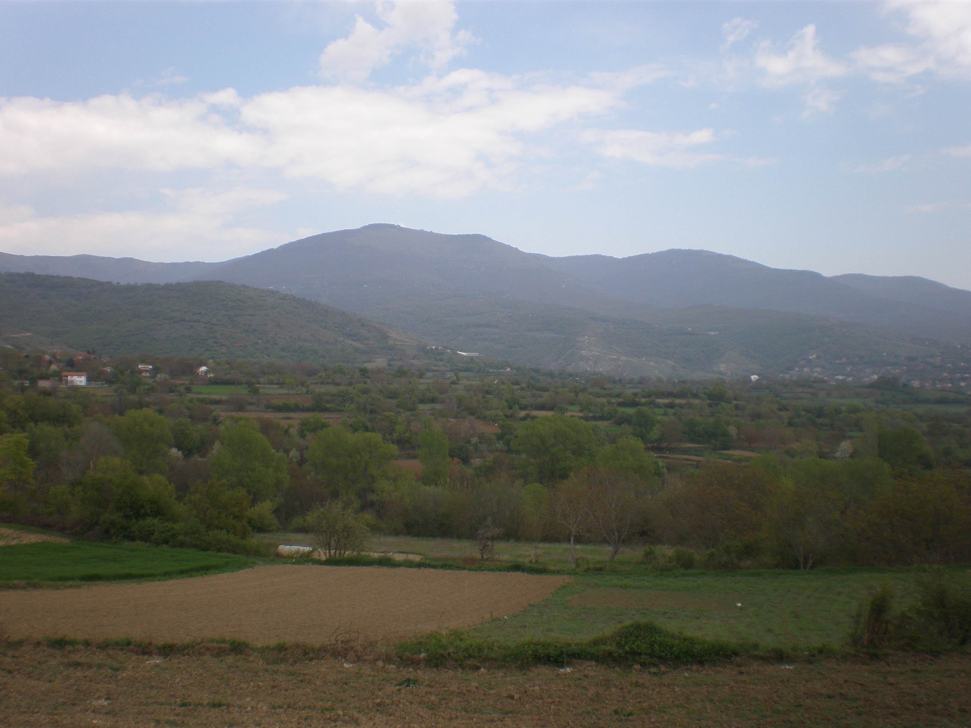 Skopska Crna Gora mountain, Macedonia